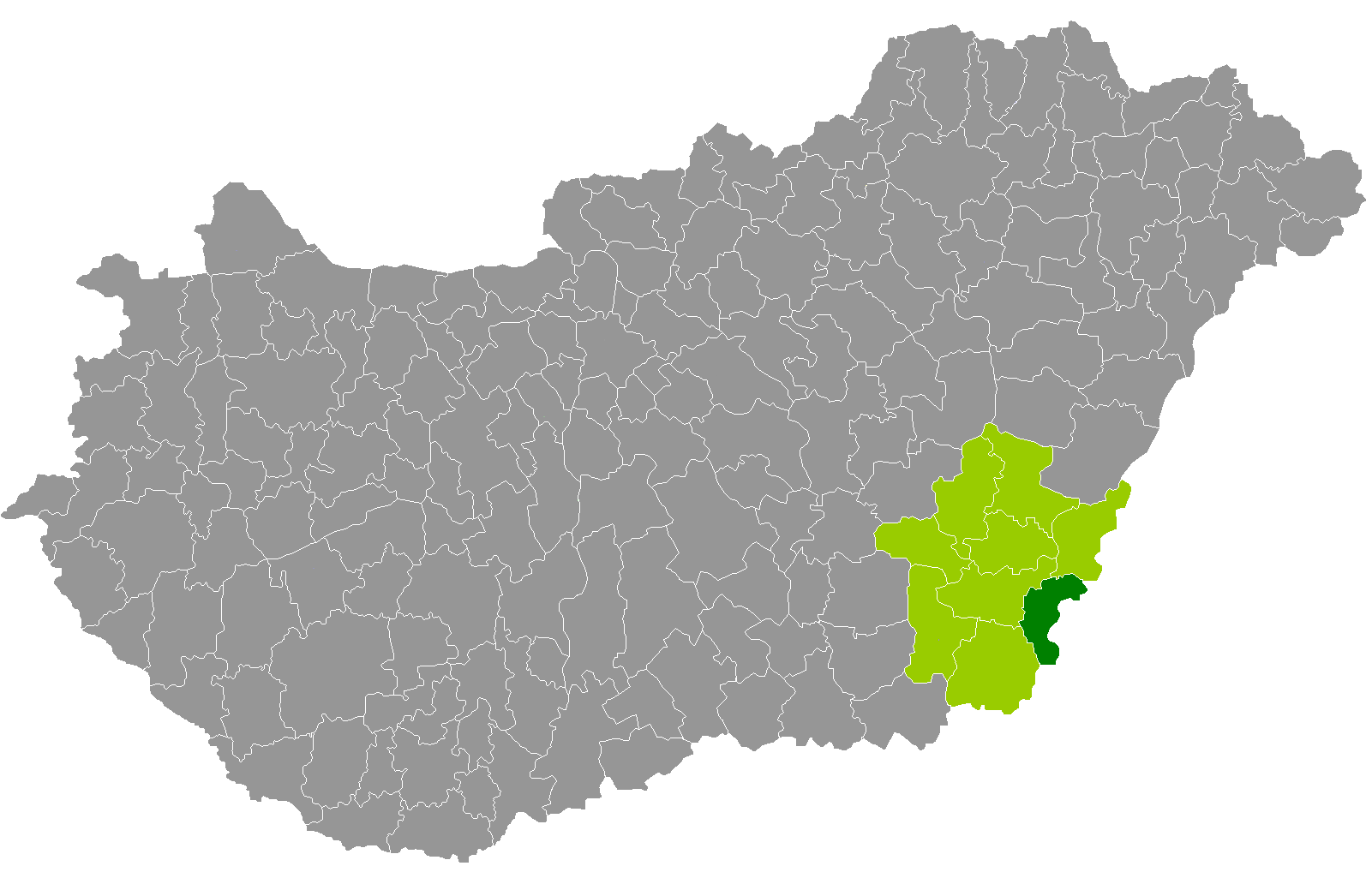 Location of Gyula District, Békés, Hungary